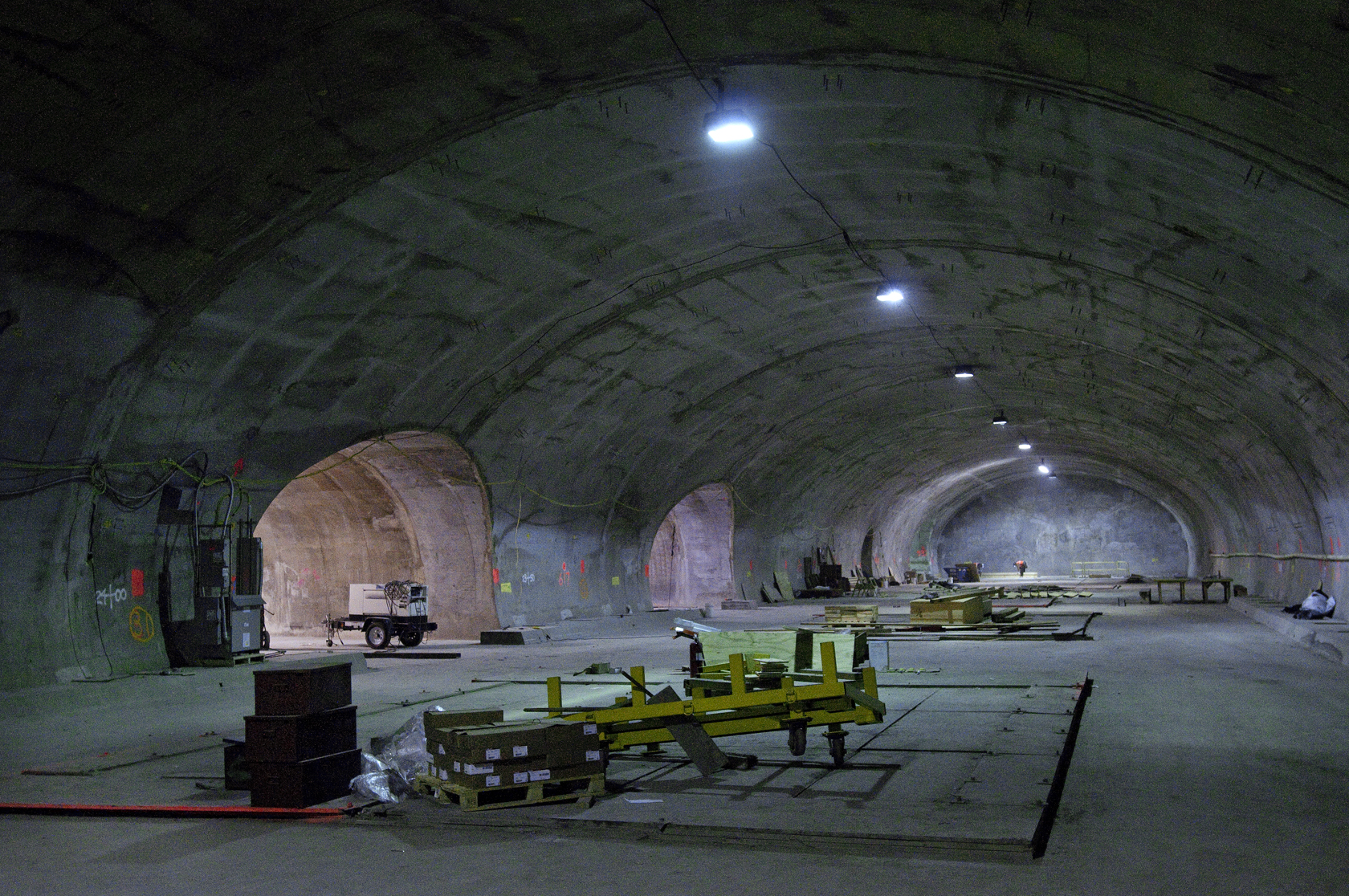 The MTA is extending the 7 subway line to a new station at 34th Street and Eleventh Avenue on the West Side of Manhattan. This photo shows the progress of the work as of January 26, 2012. Photo by Metropolitan Transportation Authority / Patrick Cashin.